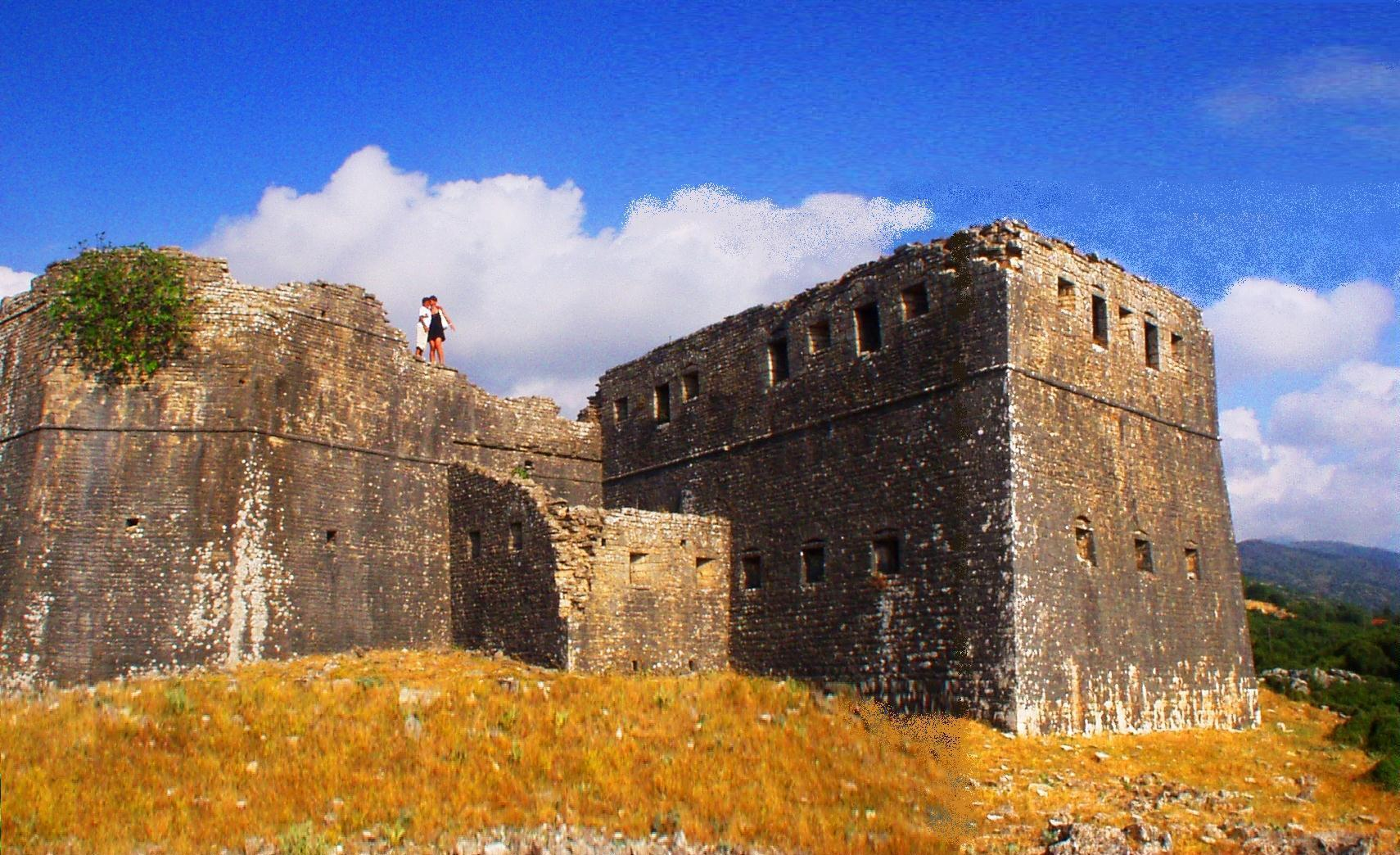 Ottoman castle of Five Wells in Preveza Prefecture, Greece